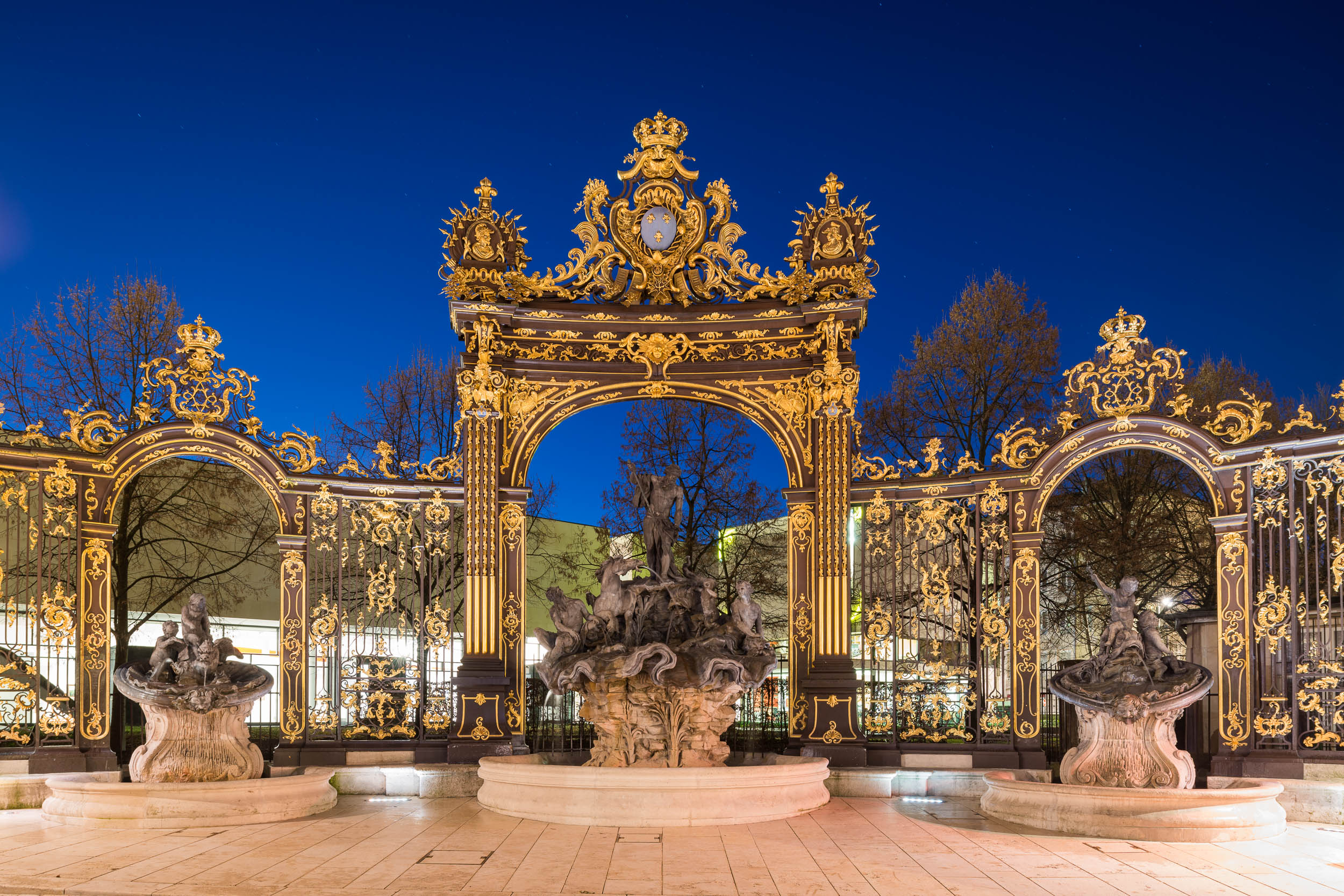 Fountain of Neptune, in Place Stanislas